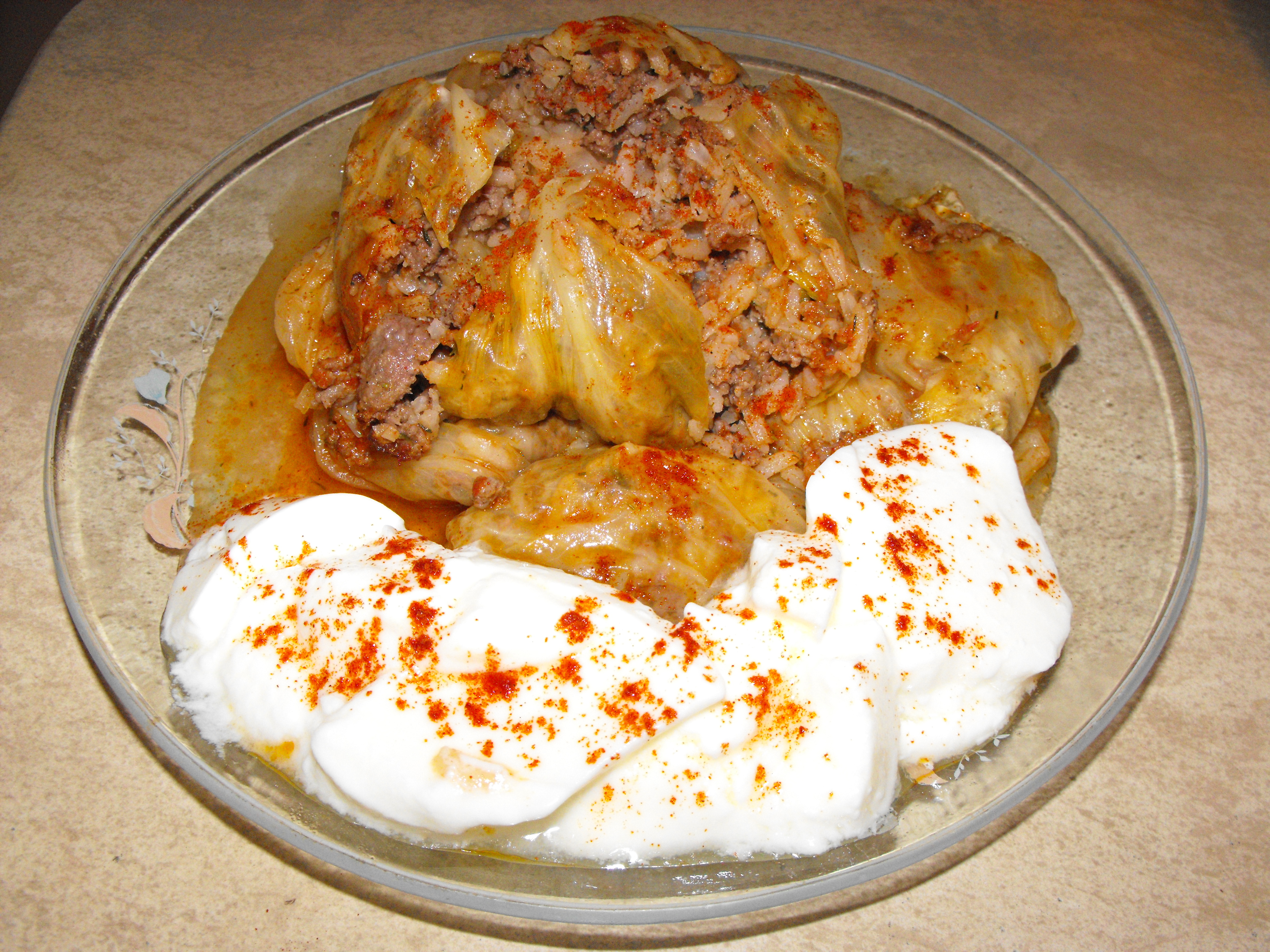 Sarma and yoghurt